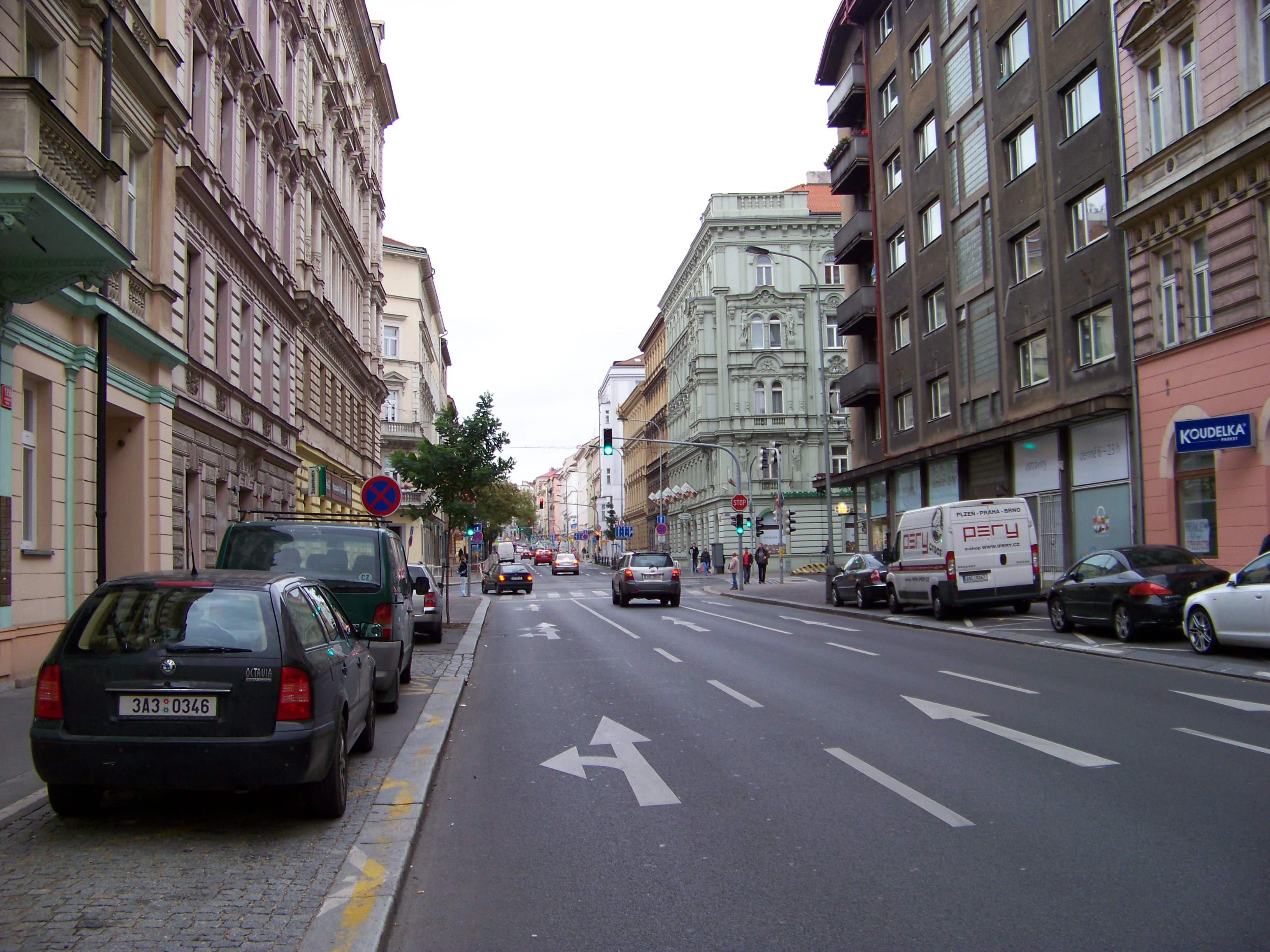 Prague-New Town, the Czech Republic. Rumunská street. - OpenStreetMap(Info)